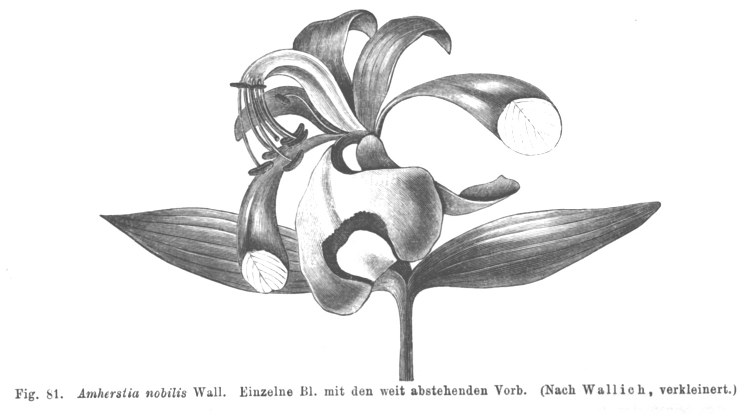 Illustration from book